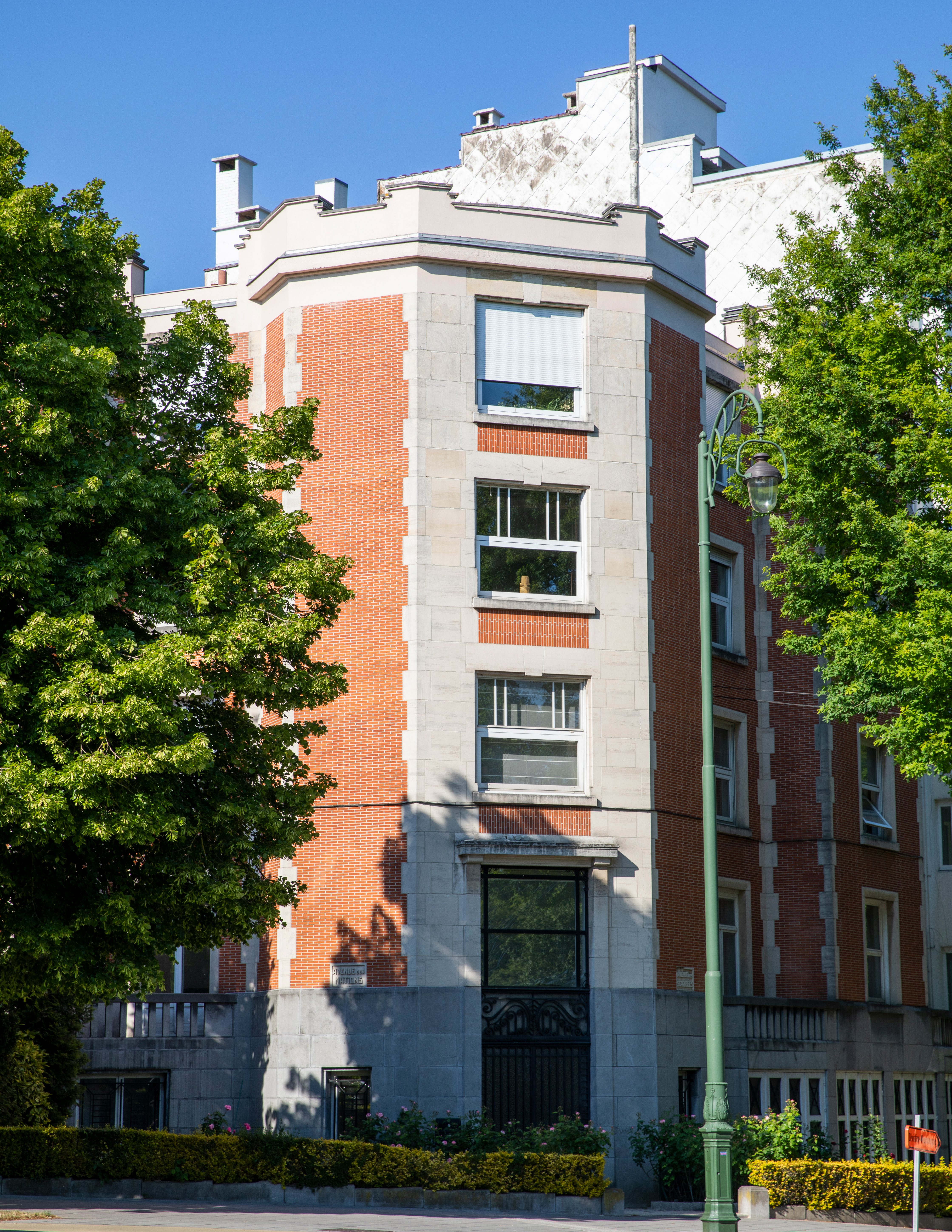 Apartment building at 110 Avenue Franklin Roosevelt in Brussels by architect Antoine Varlet